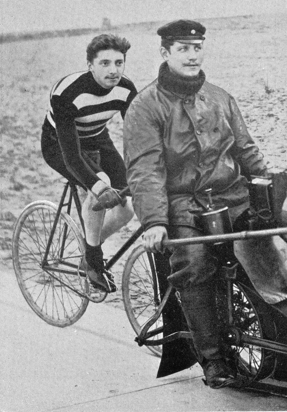 Willy Schmitter following pacemaker Péguy